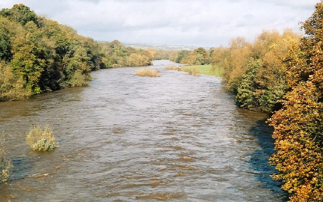 The River Wye at Hay-on-Wye near the border between Wales and England.